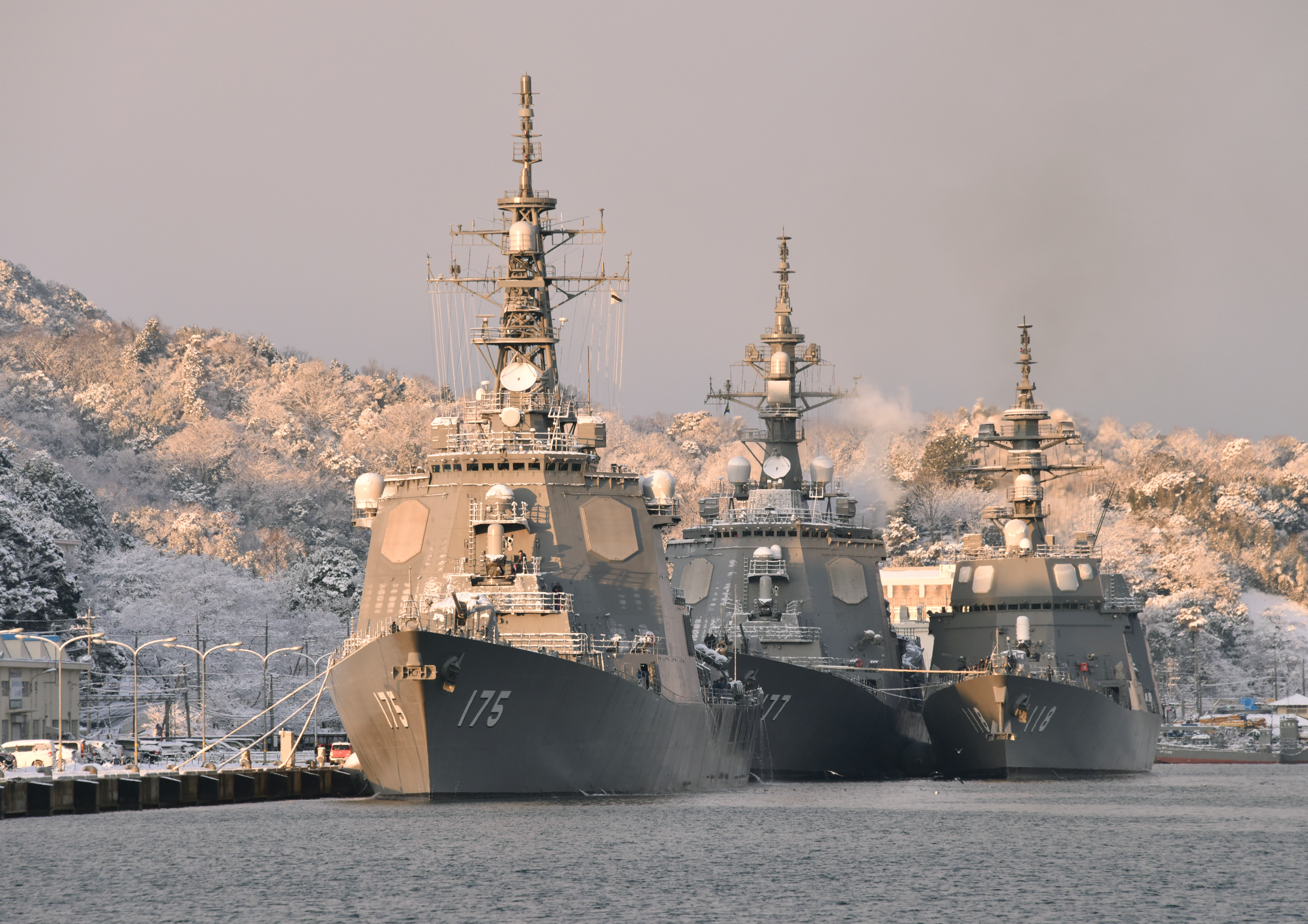 JMSDF MaizuruBase KitasuiQuay （JS"Myôkô"DDG-175,JS"Atago"DDG-177,JS"Fuyuzuki"DD-118）